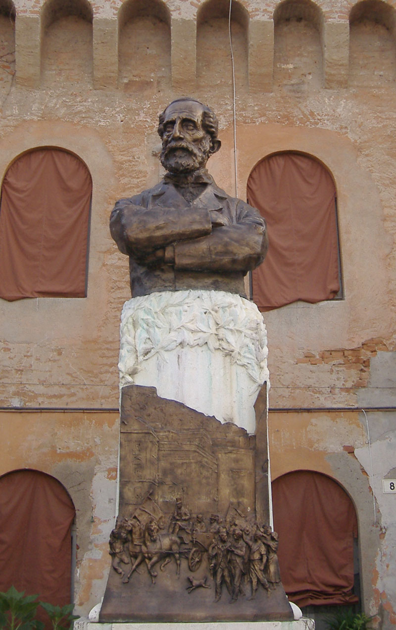 The Monument dedicated at Giorgio Pallavicino-Trivulzio at San Fiorano, Italy